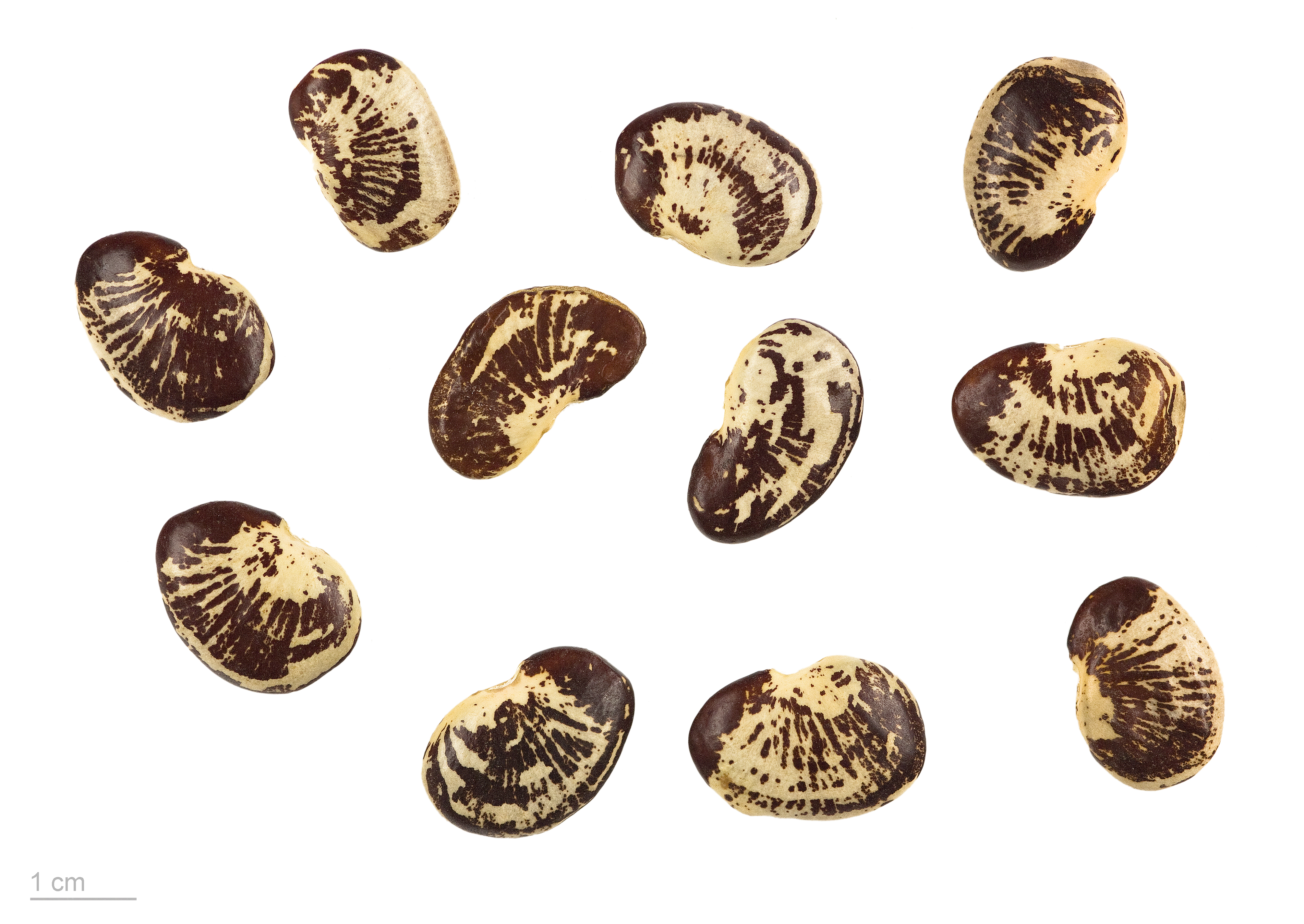 lima bean, fruits and seeds